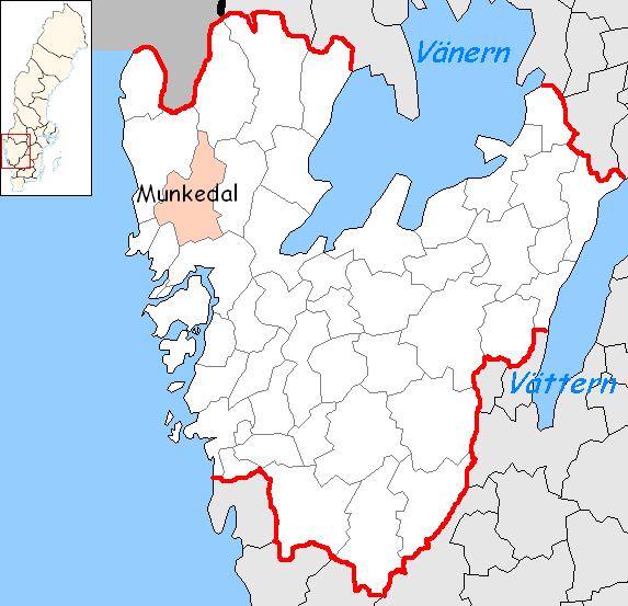 Munkedal Municipality in Västra Götaland County Designed by me. Mere outlines are a PD source from